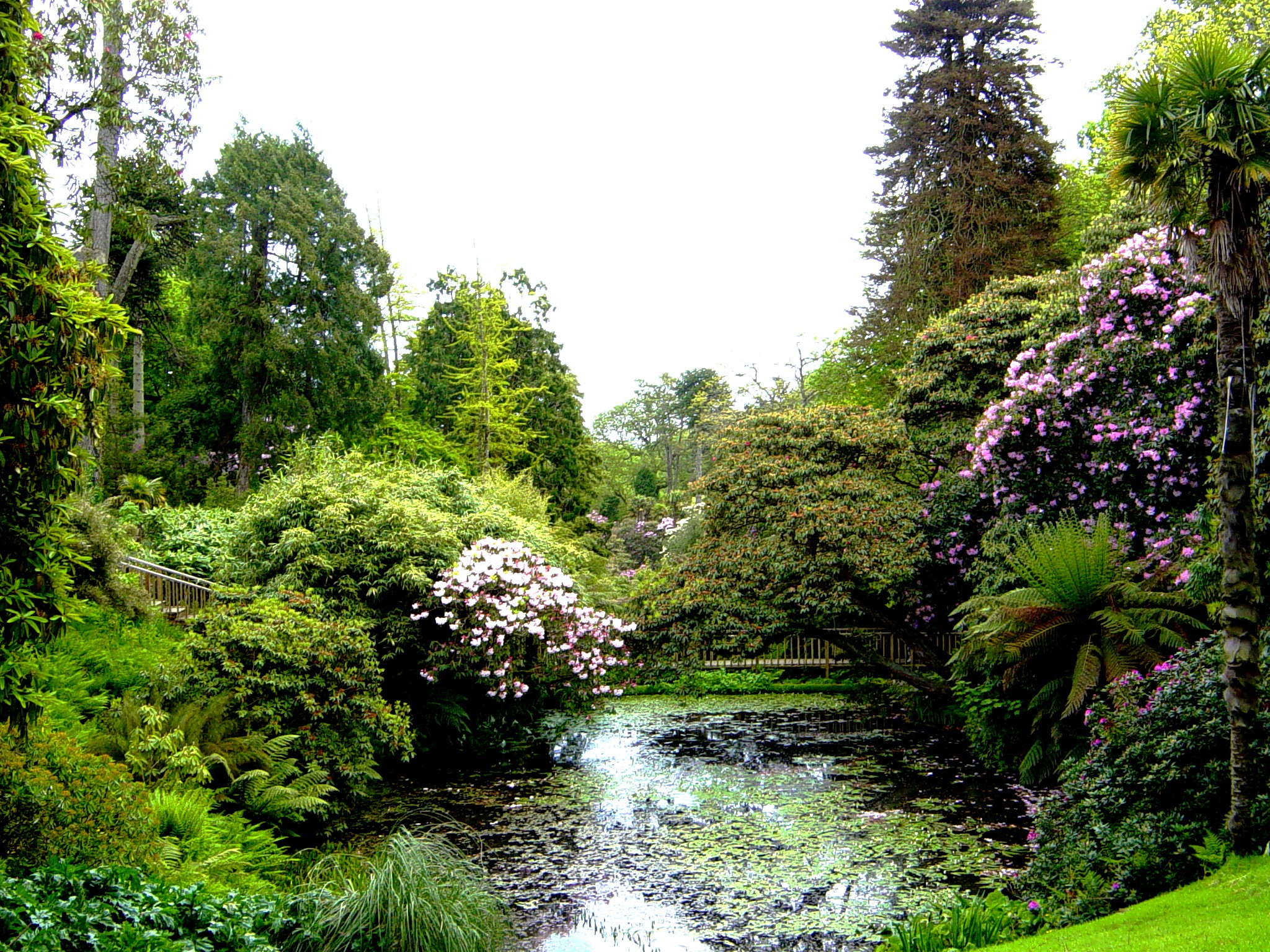 The Jungle, The Lost Gardens of Heligan.